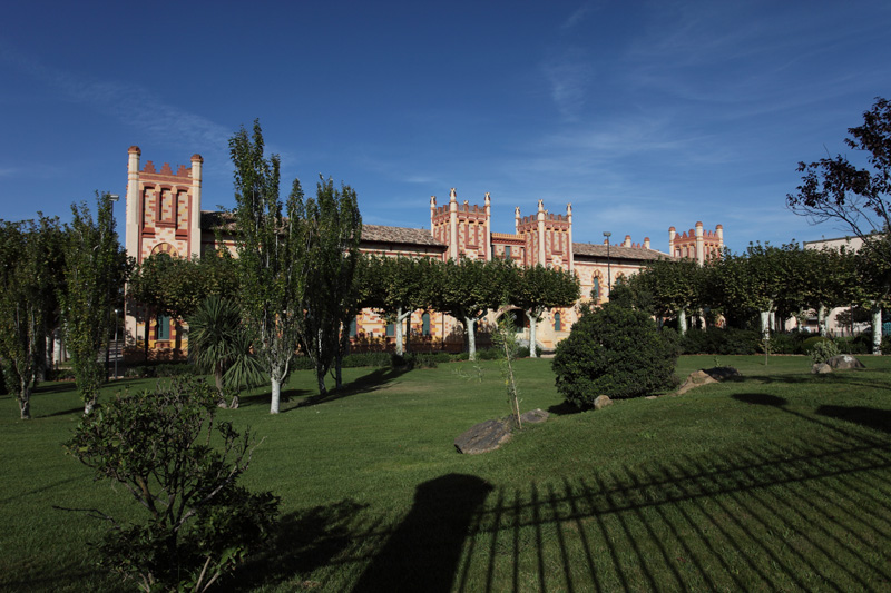 balneari Vichy